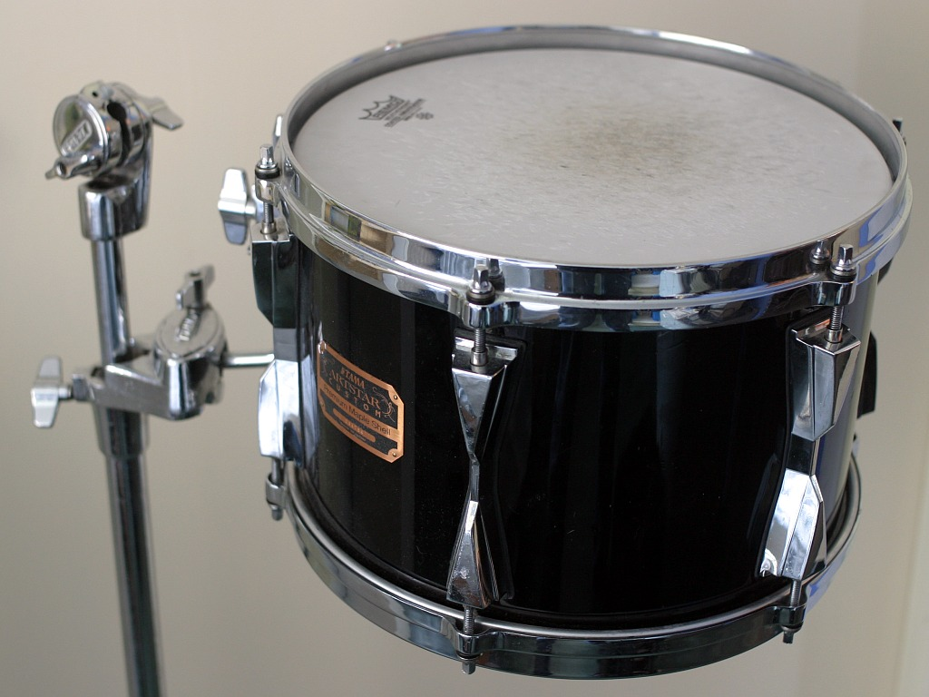 Tama 12"x8" tom-tom (rack tom) with Remo coated top head, mounted to a stand